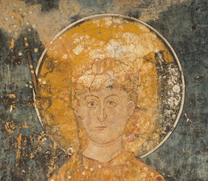 Detail of fresco of Simeon Siniša,half-brother of Dušan Silni,part of Dušan`s fammily composition,Visoki Dečani,Serbia.